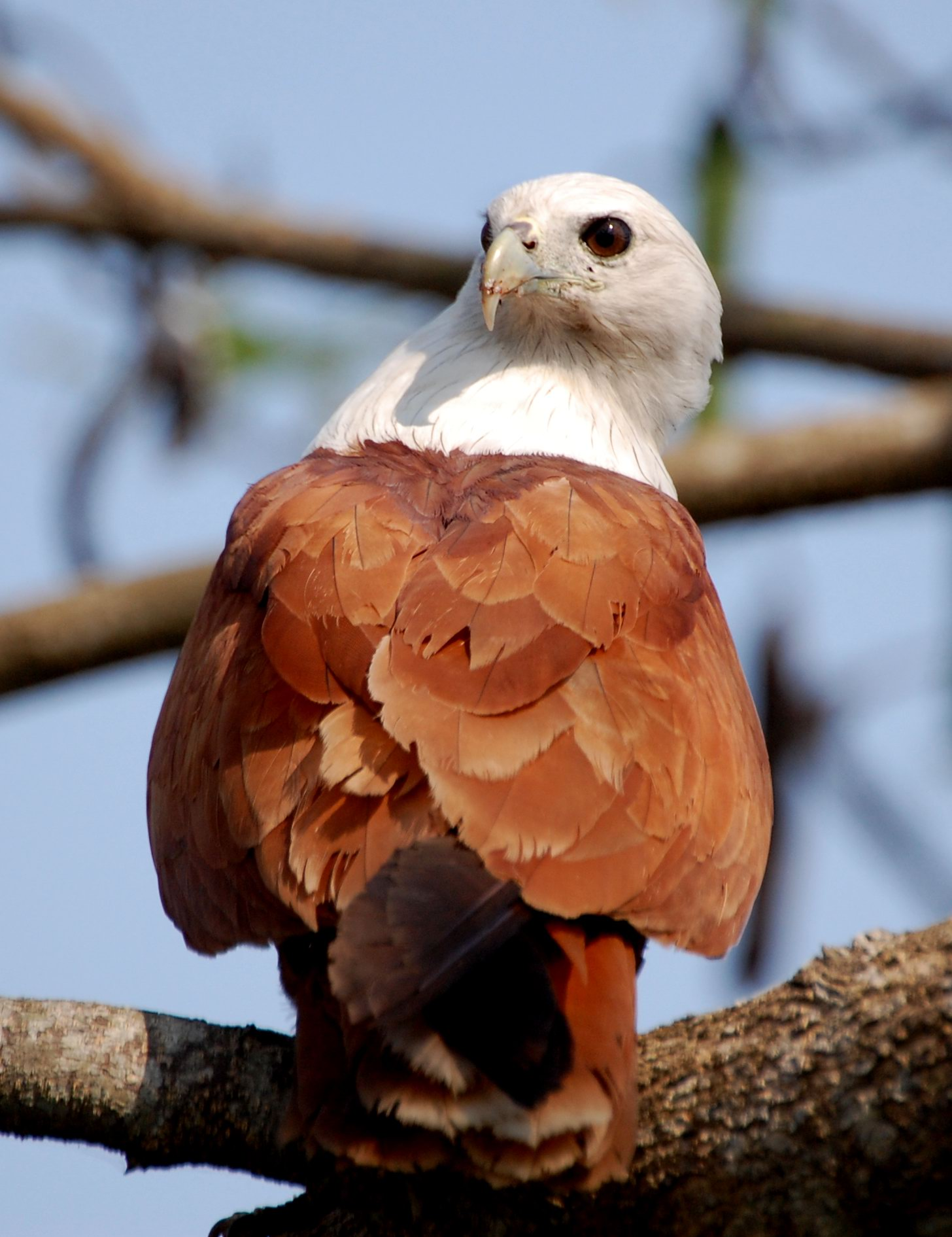 Brahminy Kite Haliastur indus indus, Chalakudy, Kerala, India